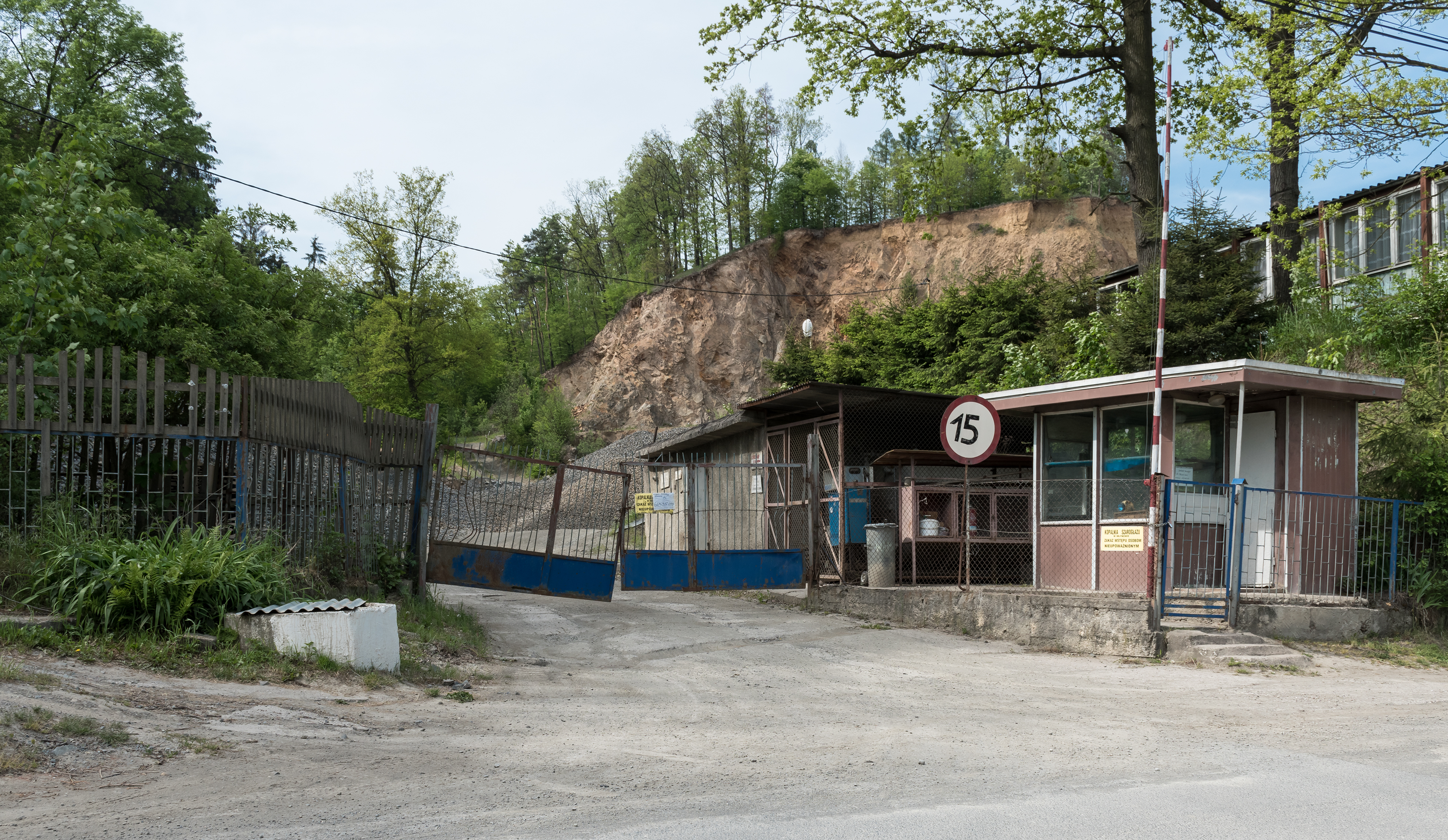 Mine greywacke in Młynów